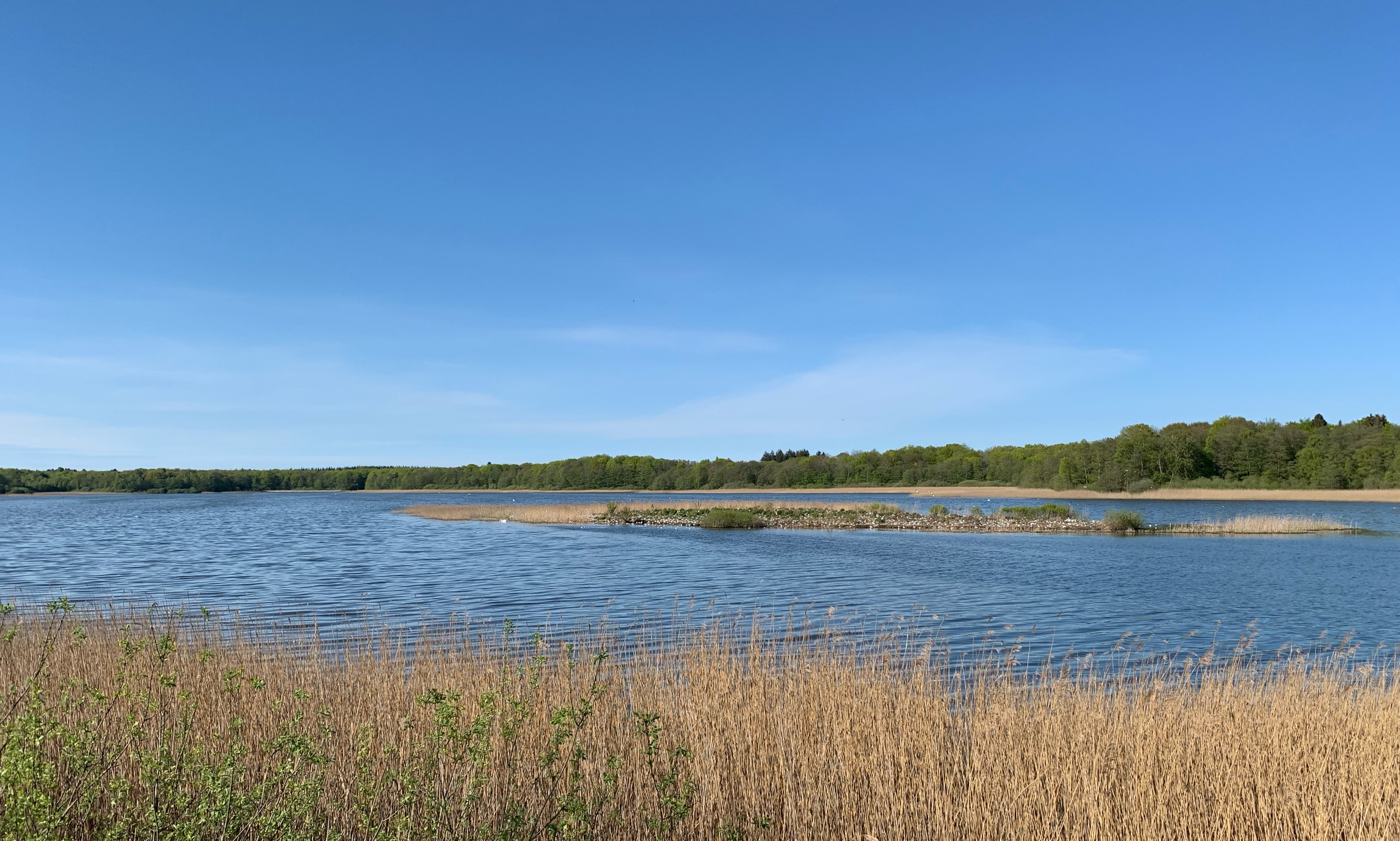 View to Mågeøen (the Sea Gull Island) in Gurre Lake